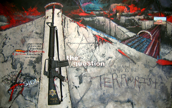 1 The Question to be Asked..., 43x76 inches, canvas,concrete texture, replica M16, 2005